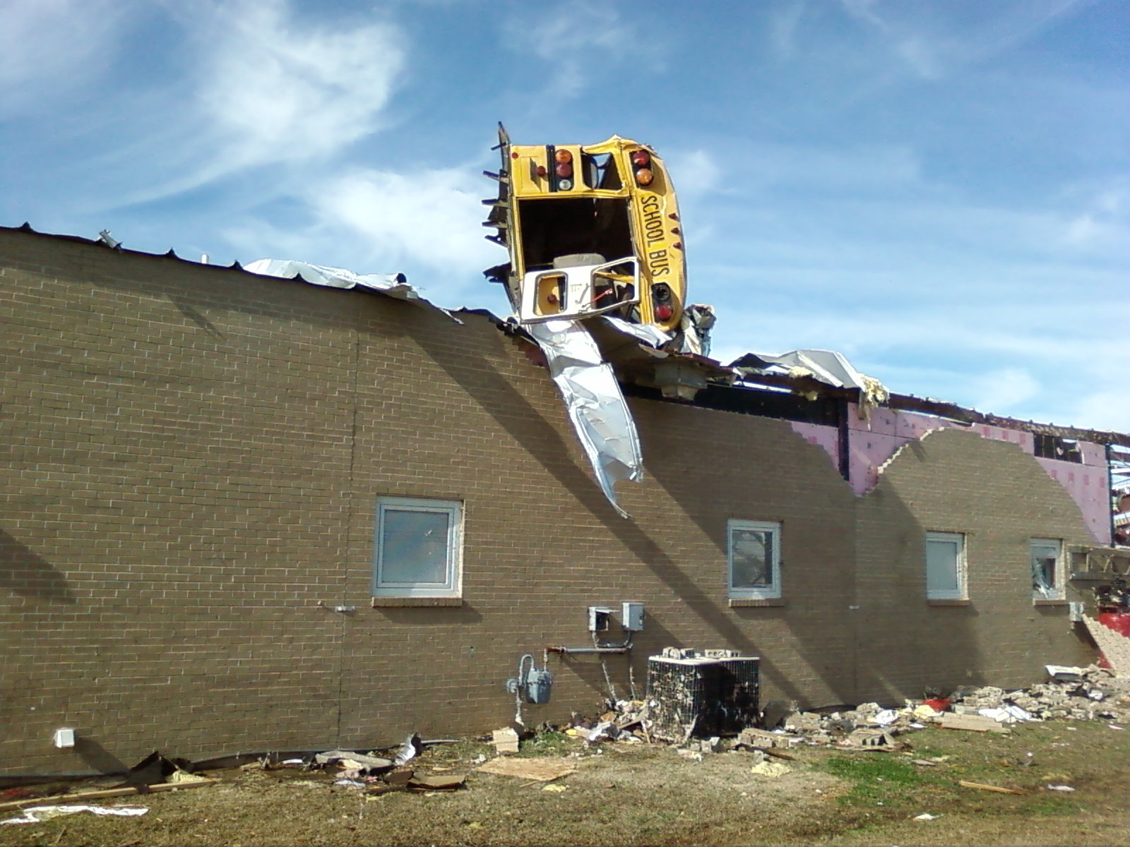 Extensive tornado damage to an elementary school on January 10, 2008. Notice the school bus on top of the remains that the tornado lifted and flipped onto the school roof.